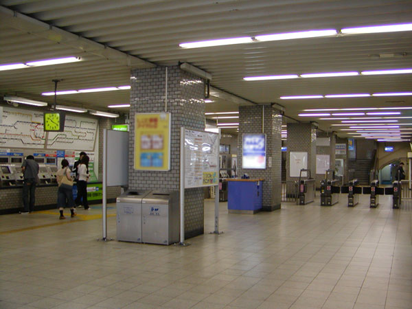 The north side ticket barriers at Teradacho Station on the Osaka Loop Line in Osaka, Japan